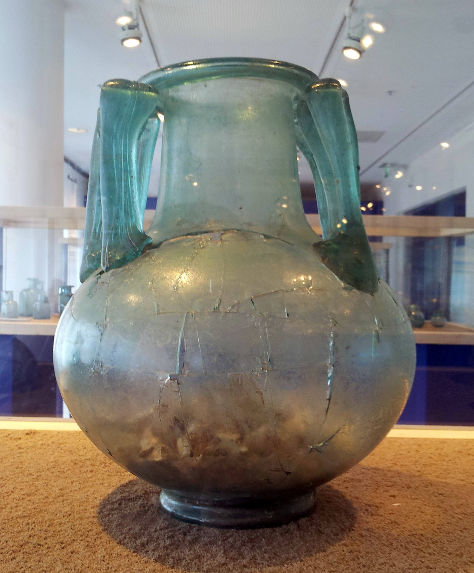 Ancient Roman cinary urn (Belfort, 2nd c AD). Glass collection of Centre Céramique, Maastricht, the Netherlands.